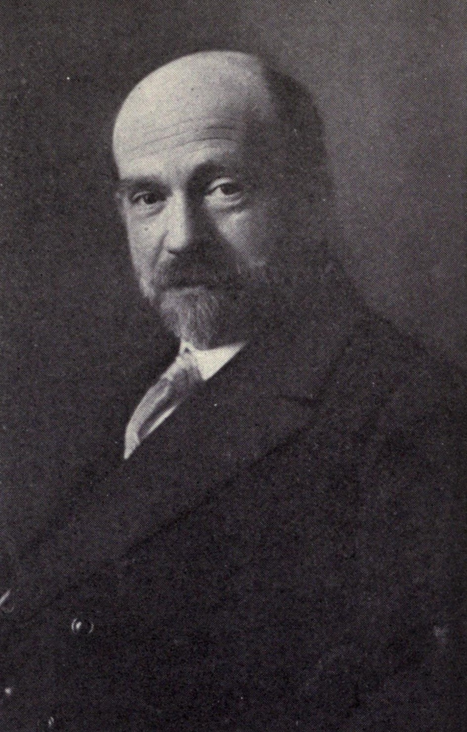 Pío Baroja